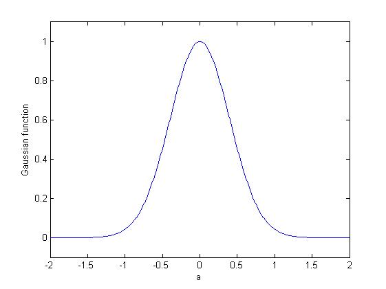 Gaussian by stevencys